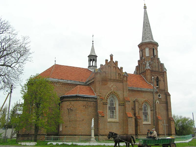 Church in Stoyaniv nearly Radekhiv, Lviv region, Ukraine